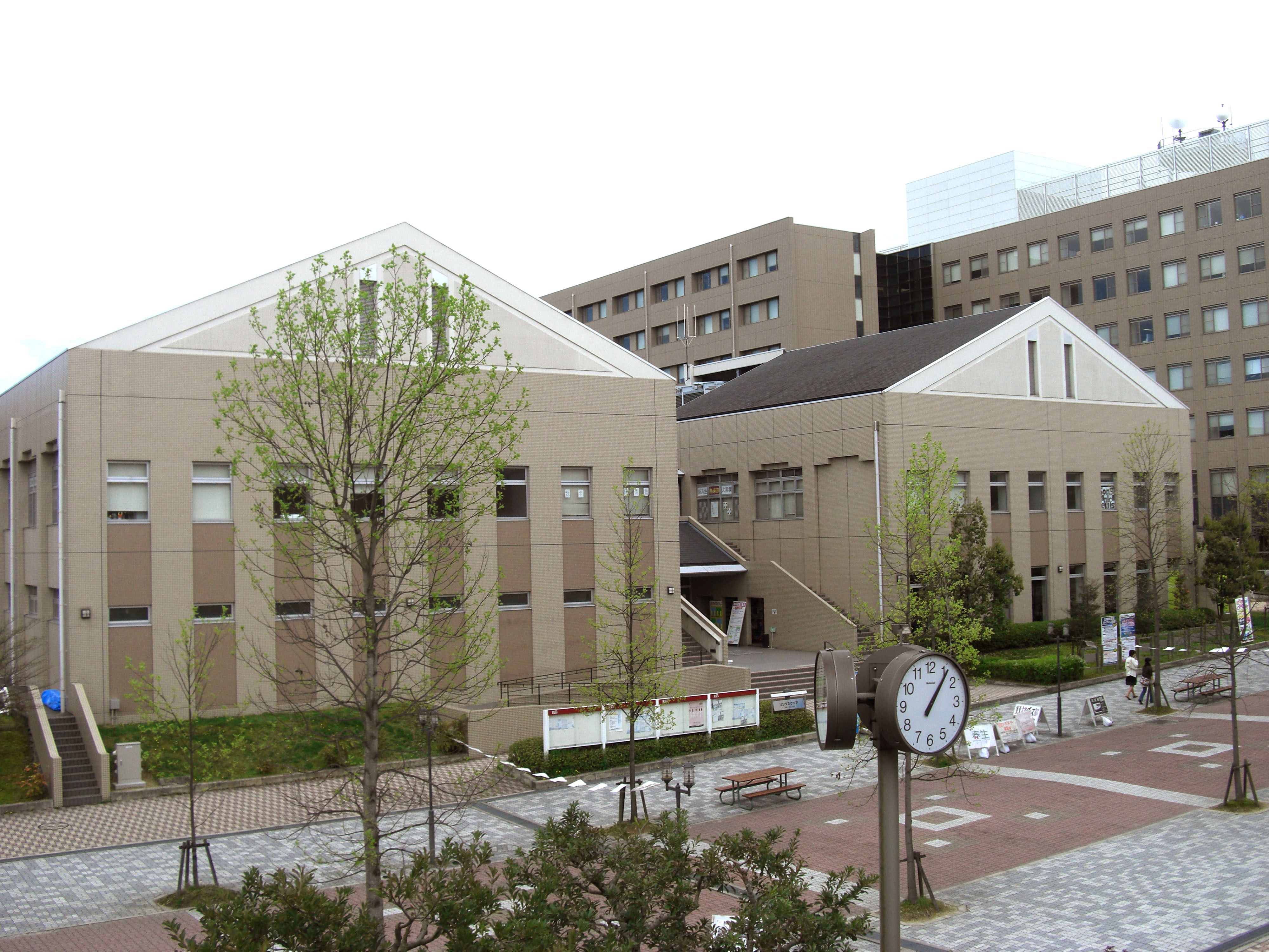 Link Square (Ritsumeikan University Biwako Kusatsu Campus), 1-1-1 Nojihigashi Kusatsu-City Shiga JAPAN.